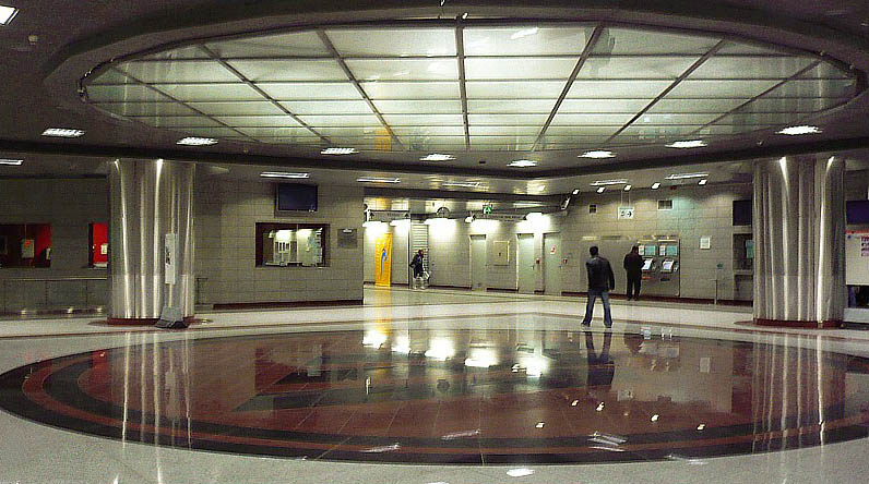 Doukissis Plakentias Metro Station-Greece